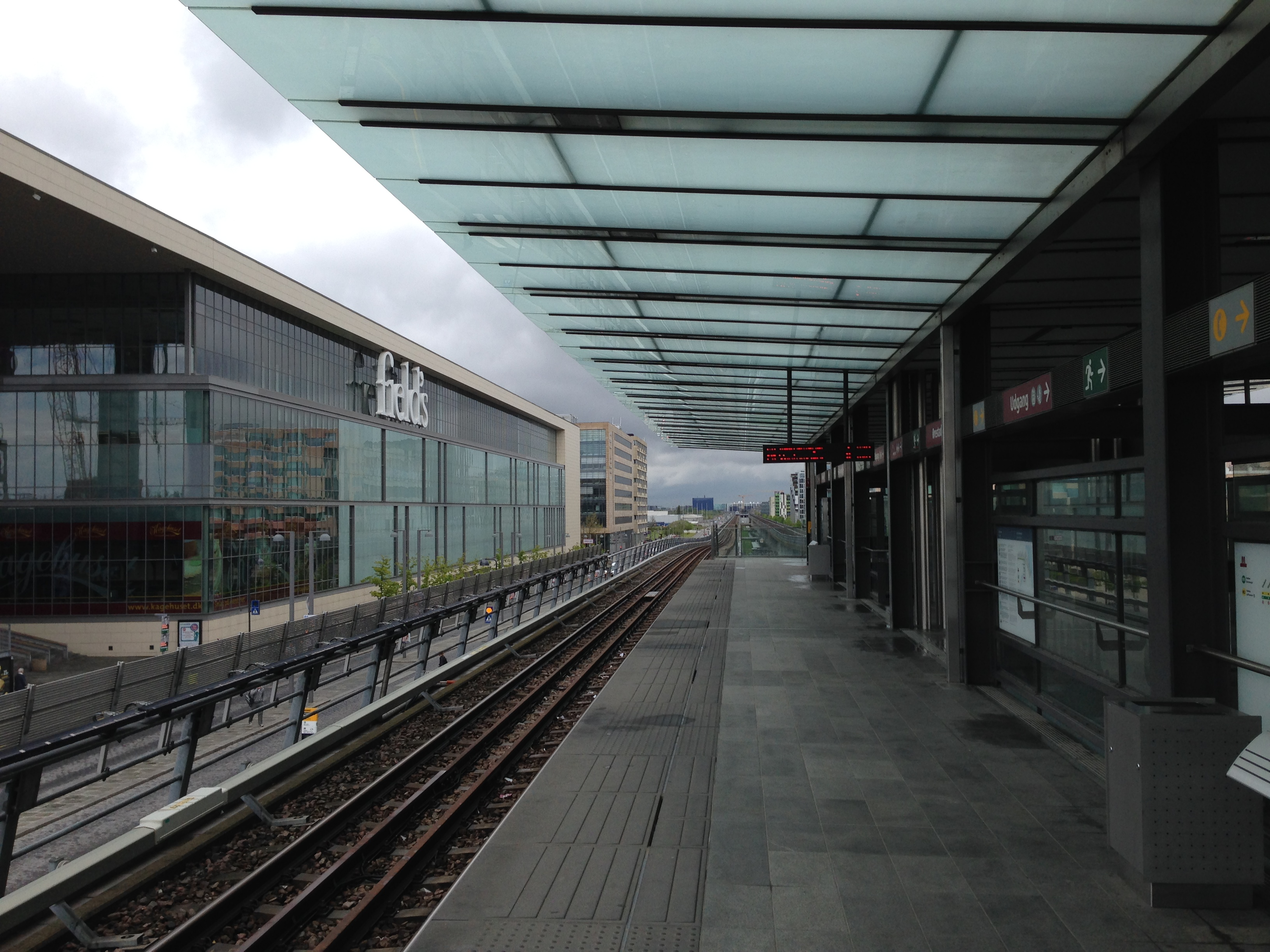 Ørestad Metro Station